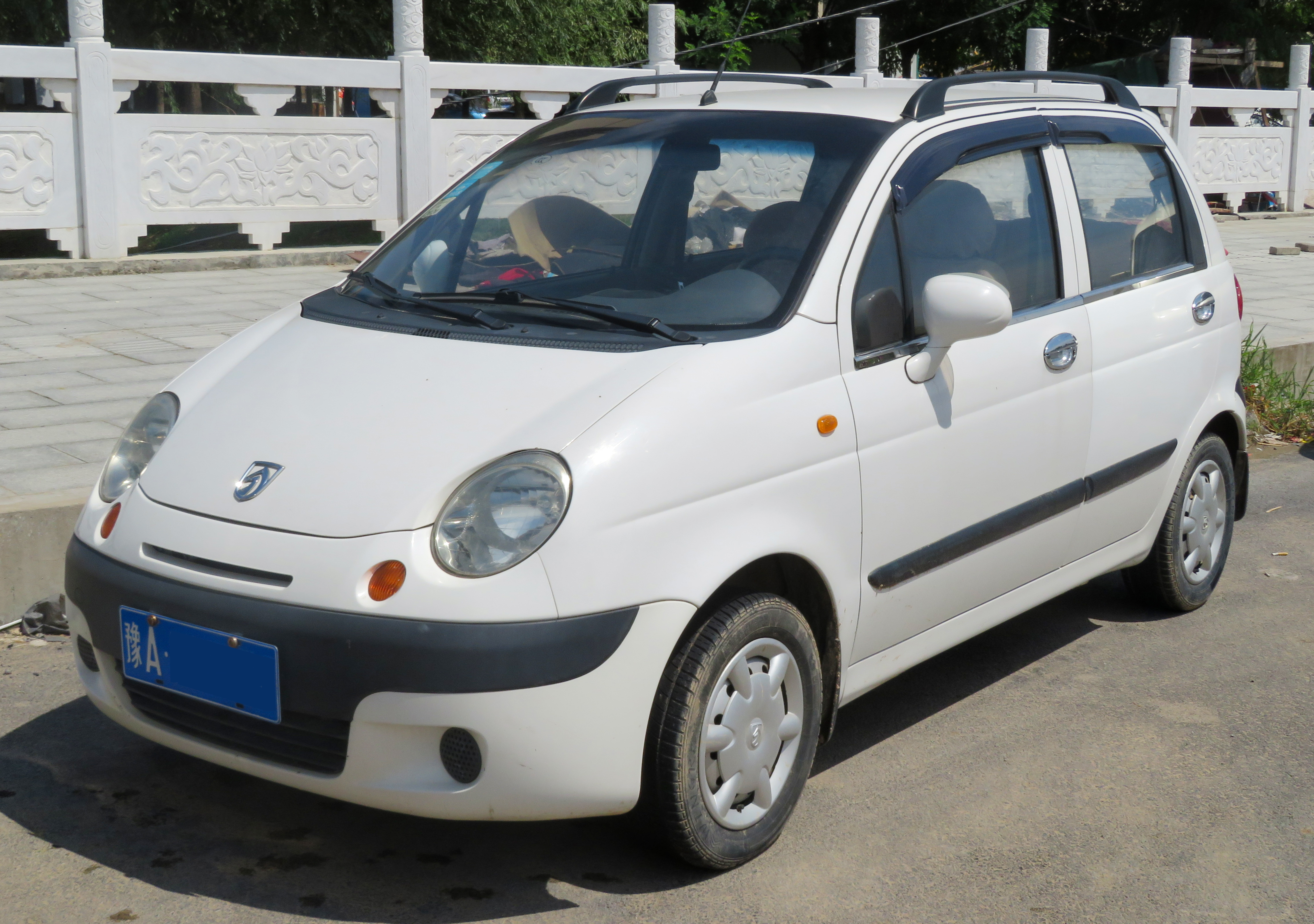 A 2014 Baojun Lechi 1.0 photographed in Zhengzhou, Henan province, China